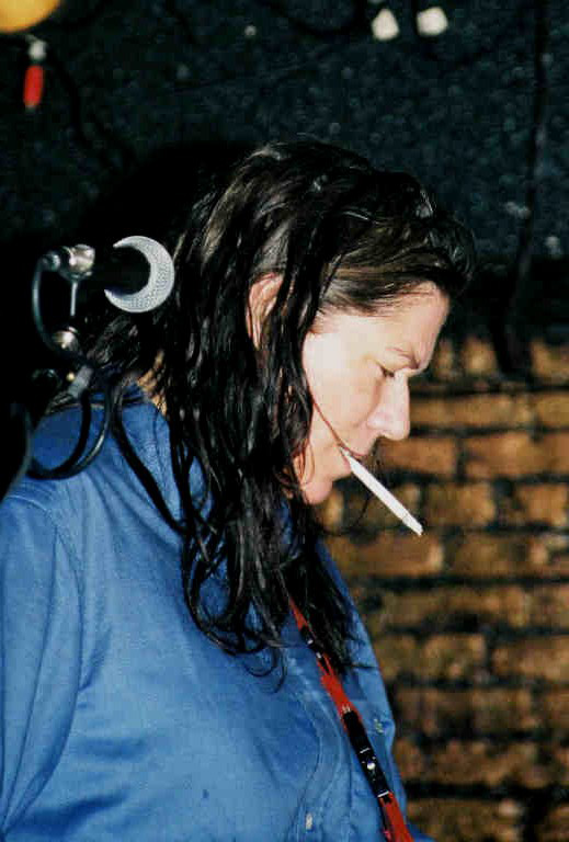 The Breeders' Kim Deal, smoking during a live show at Berbati's Pan in Portland, Oregon